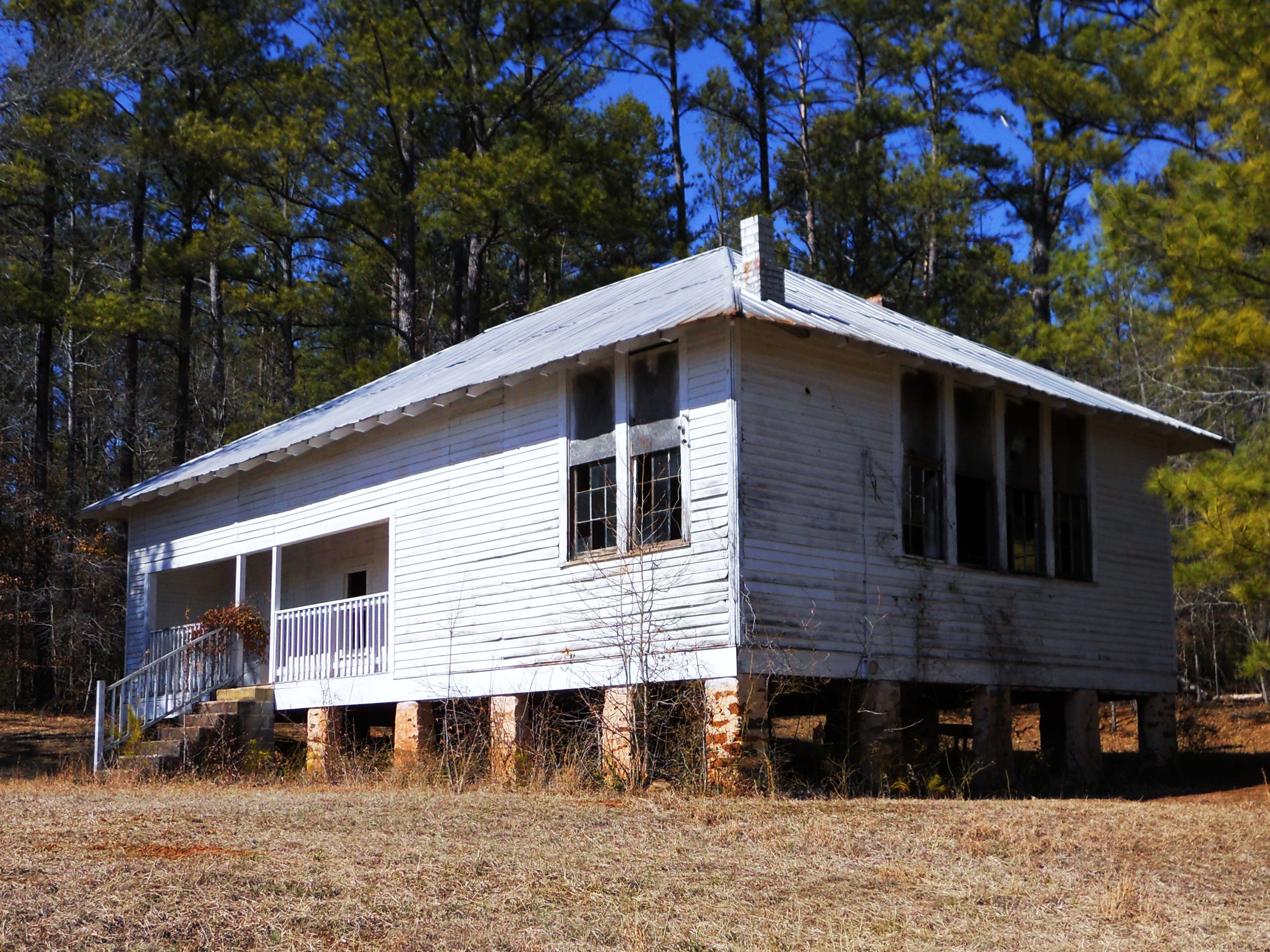 This is a photograph of the New Hope Rosenwald School located near Fredonia in Chambers County, Alabama. It was listed on the U.S. National Register of Historic Places in 2001.